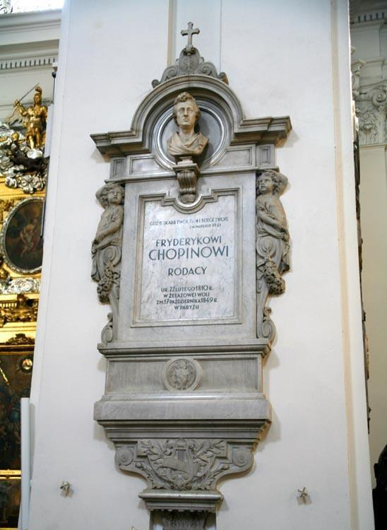 Pillar containing Chopin's heart, Holy Cross Church in Warsaw (sculptor - Leonard Marconi).